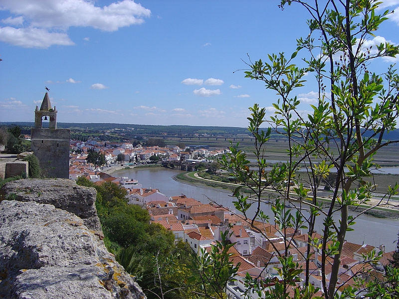 Old bridge and highway bridge, Alcácer do Sal, Alentejo, Portugal